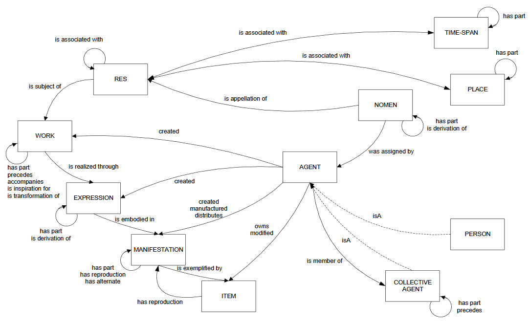 Overview of Relationships in the IFLA-LRM.